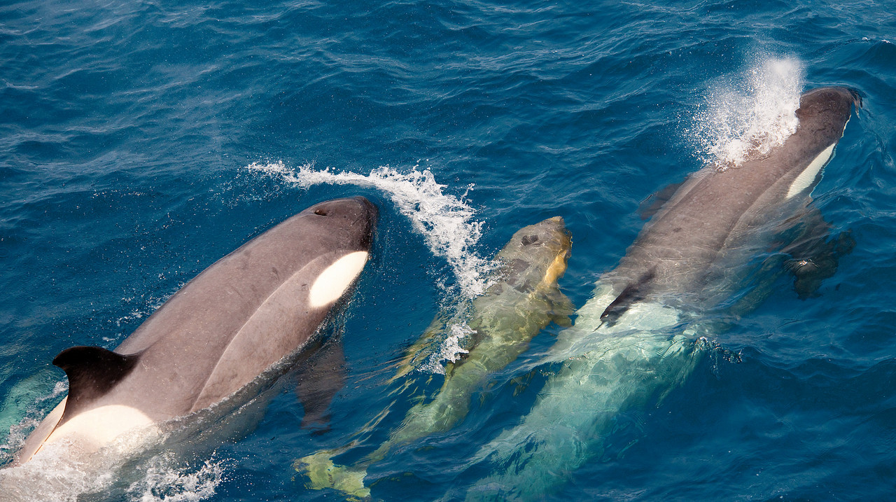 091201_south_georgia_orca_4748